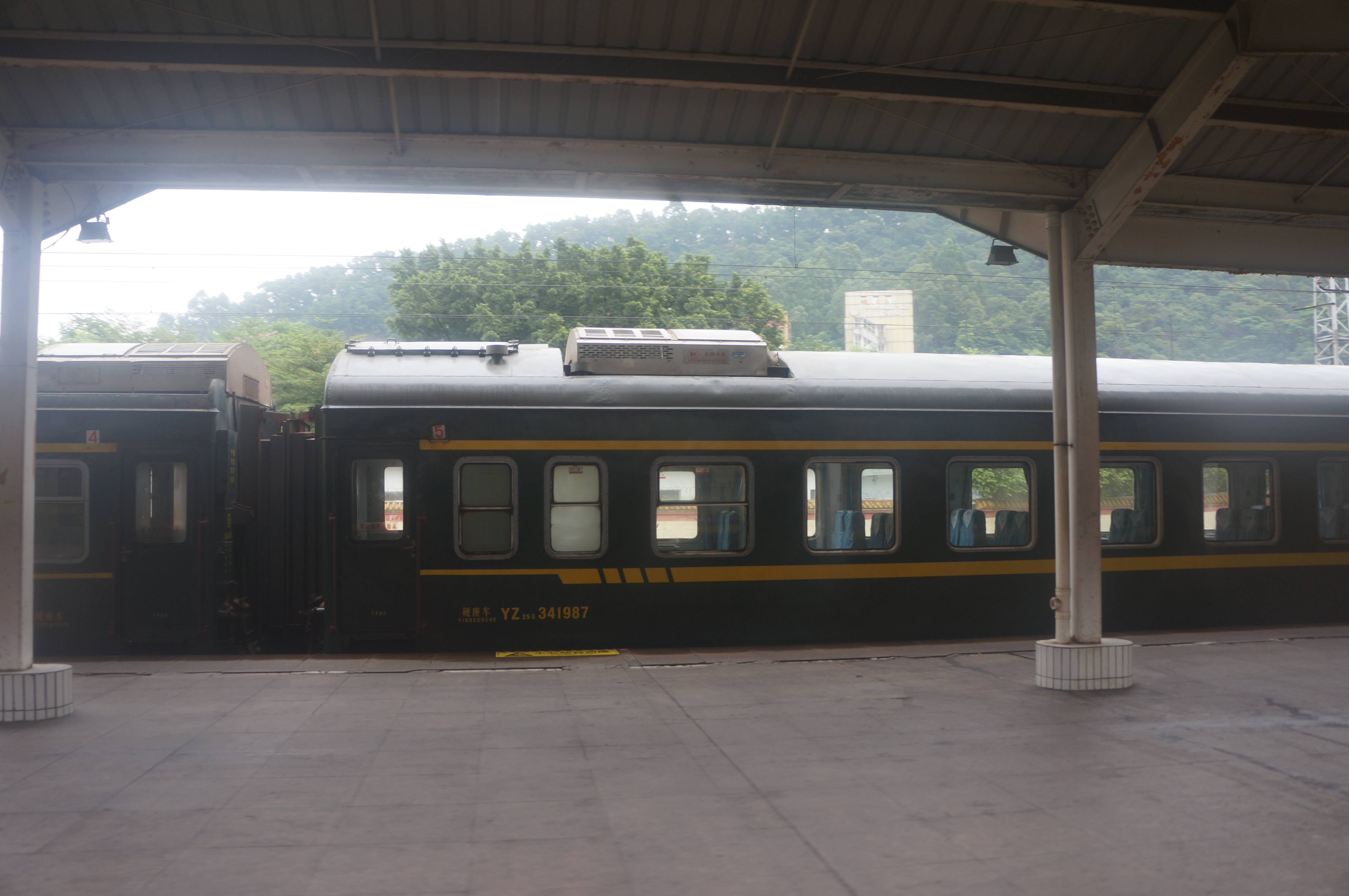 201609 YZ25A-341987 from K921 (Guangzhoudong to Hankou) at Guangzhoudong Station